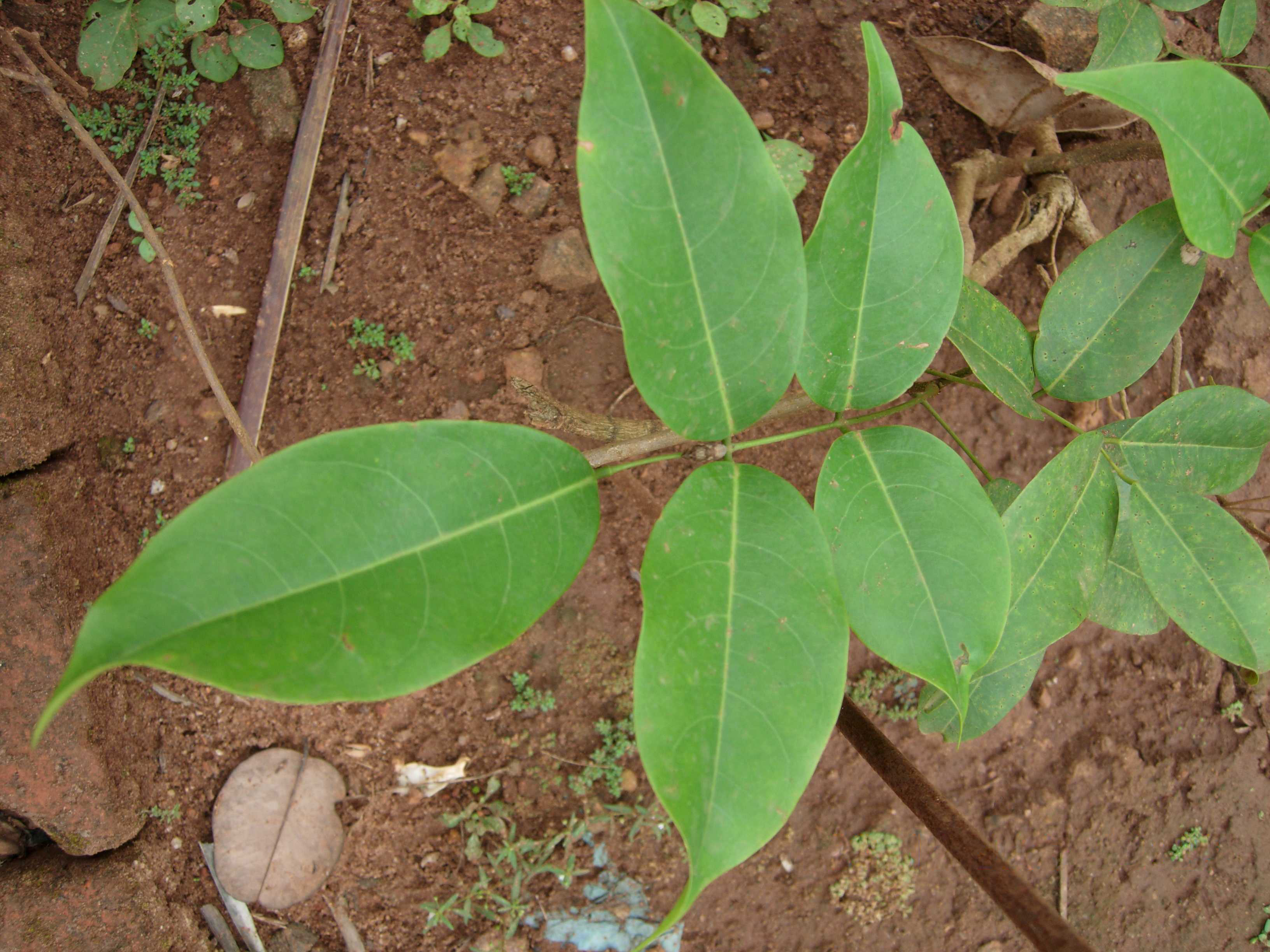 Flacourtia indica 1